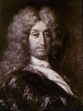 William Craven, 1st Earl of Craven (1608-1697)